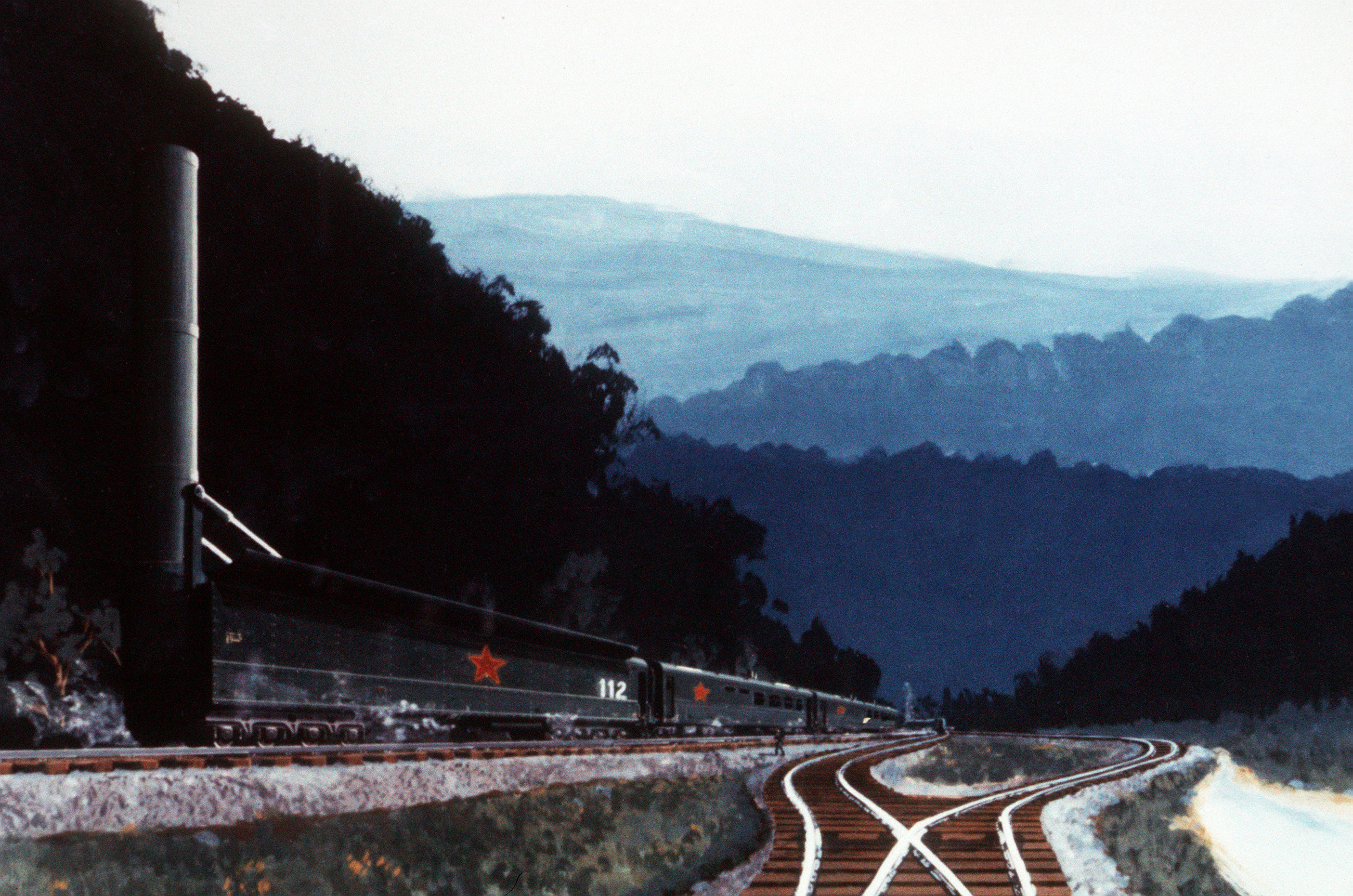 Artist's concept of a Soviet rail-mobile deployment of the SS-X-24 inter-continental ballistic missile (ICBM).